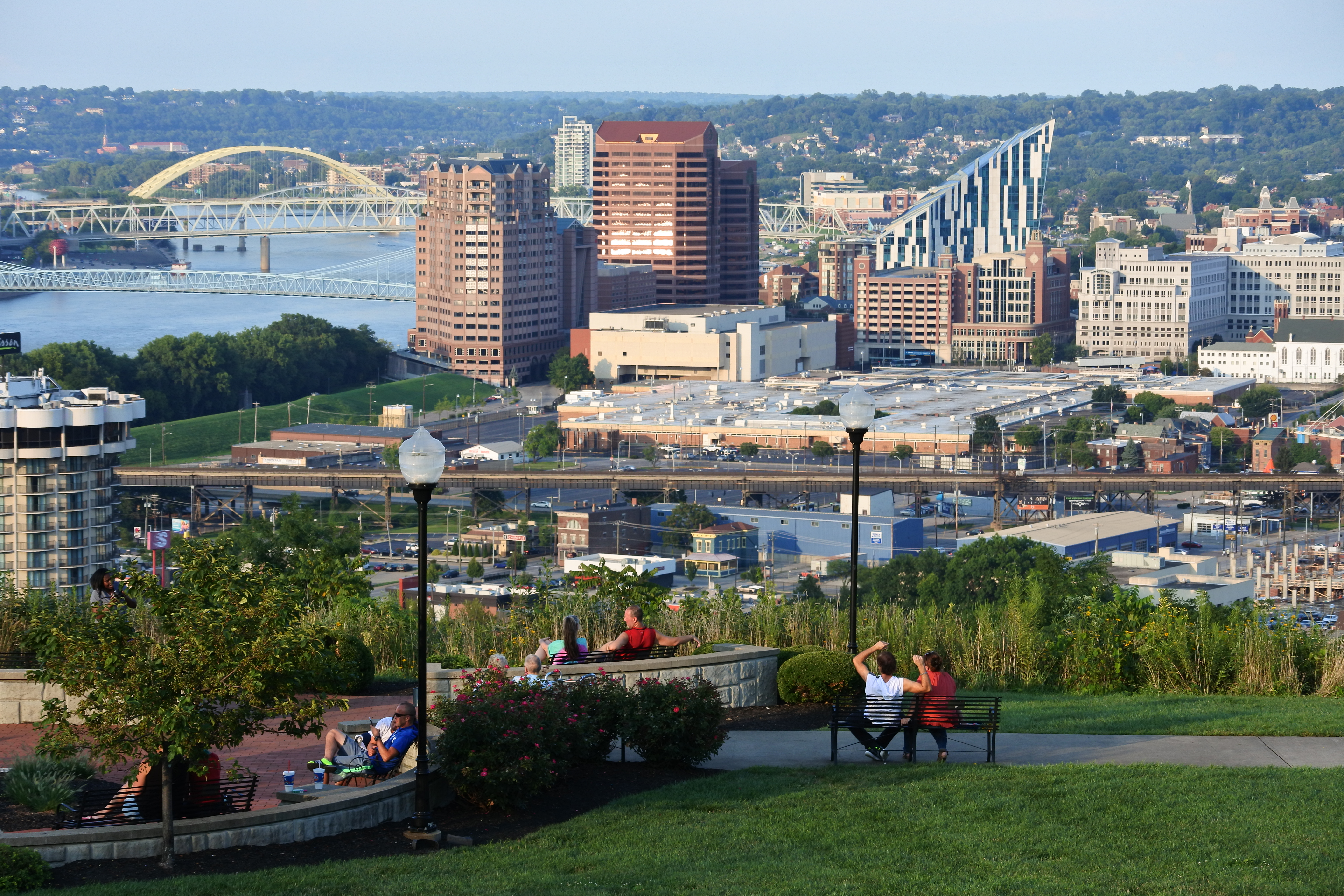 Covington Skyline from Devou Park